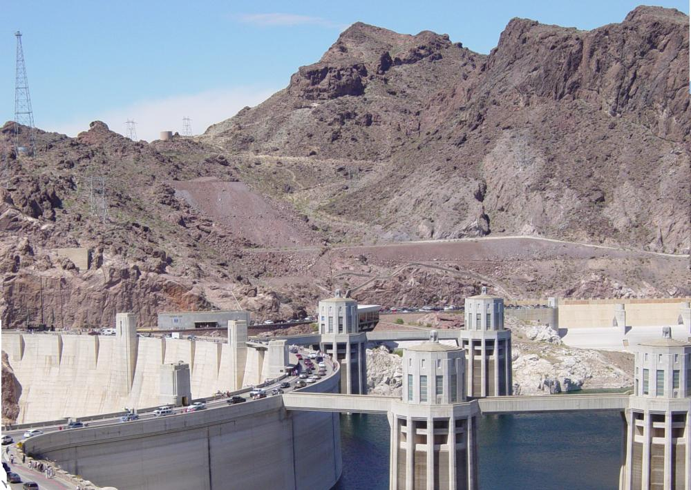 Image taken in April 2004 by Daniel Mayer. Afbeelding:US Highway 93 on Hoover Dam.jpeg